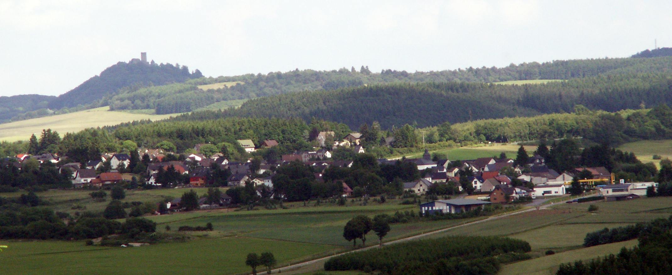 Barweiler, Eifel, Germany